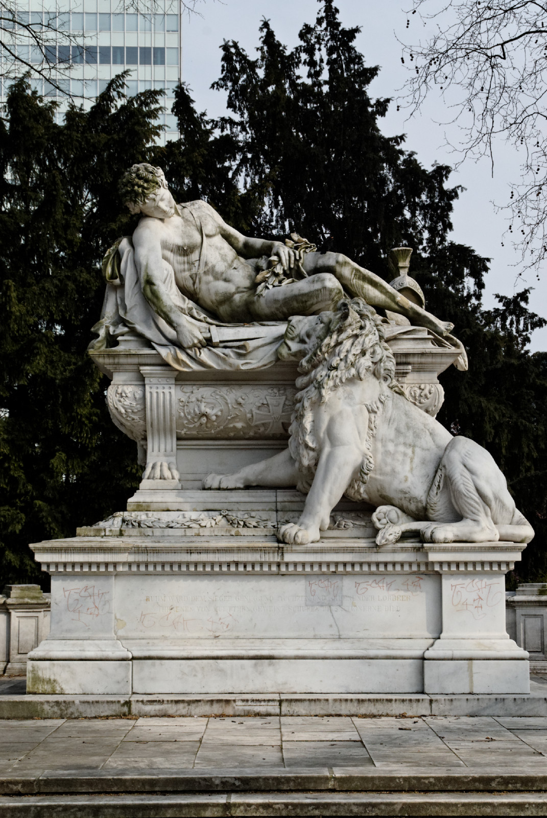 War memorial in Düsseldorf-Stadtmitte, Germany